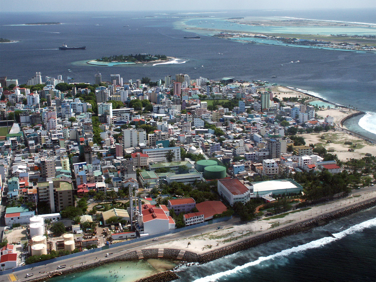 Aerial view of Malé